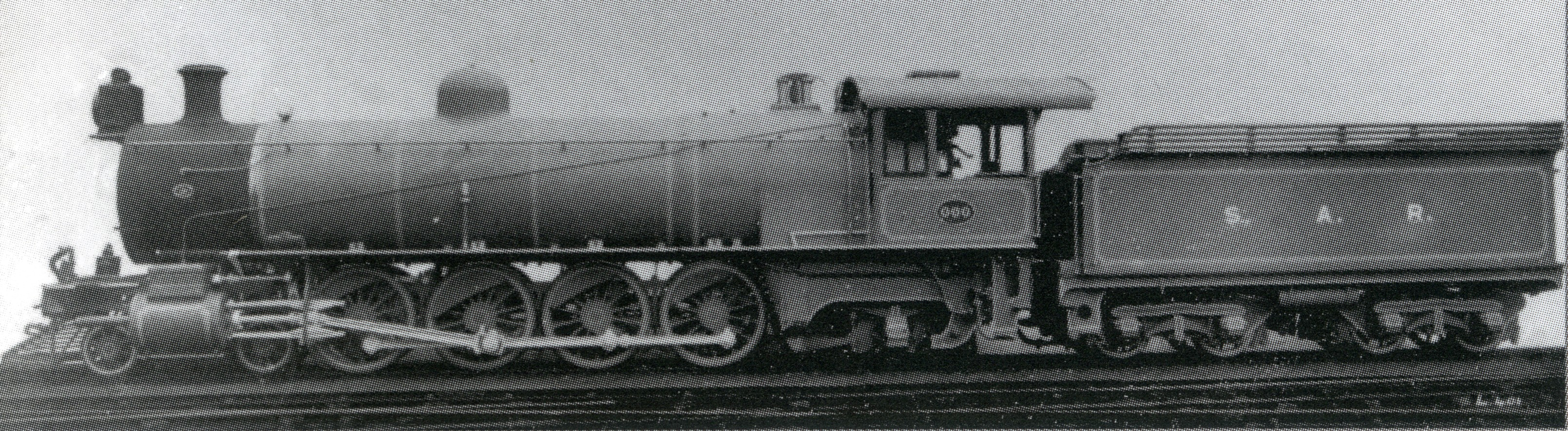 Cape Government Railways Mountain no. 850